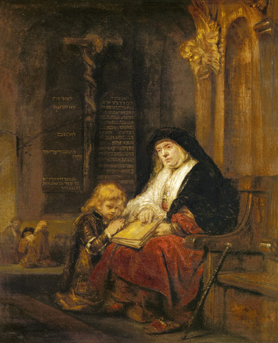 The prophet Hannah in the temple, Samuel's prayer testing